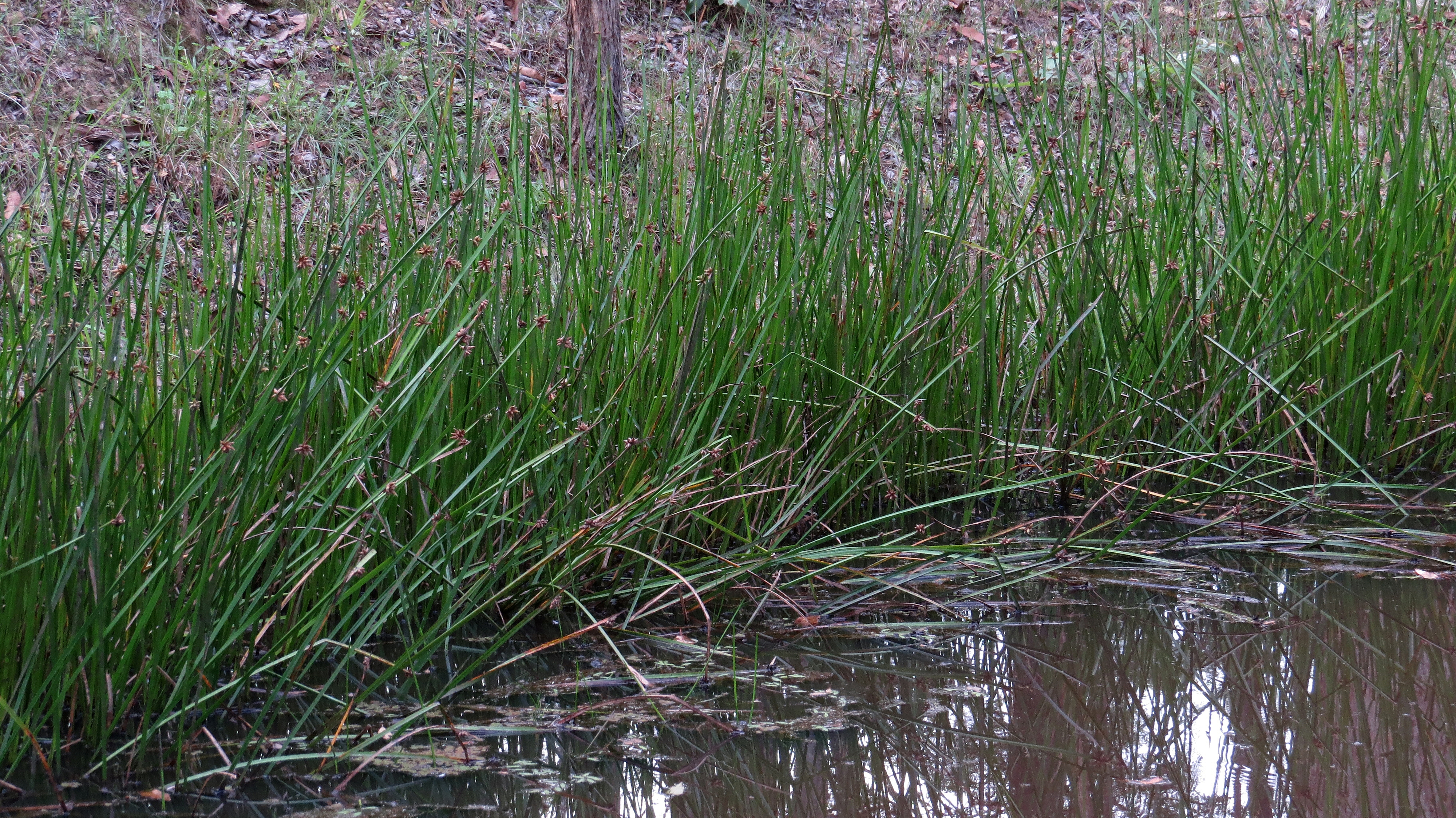 Schoenoplectus mucronatus growing on the edge of a dam. Turners Flat, NSW, Australia, April 2014.